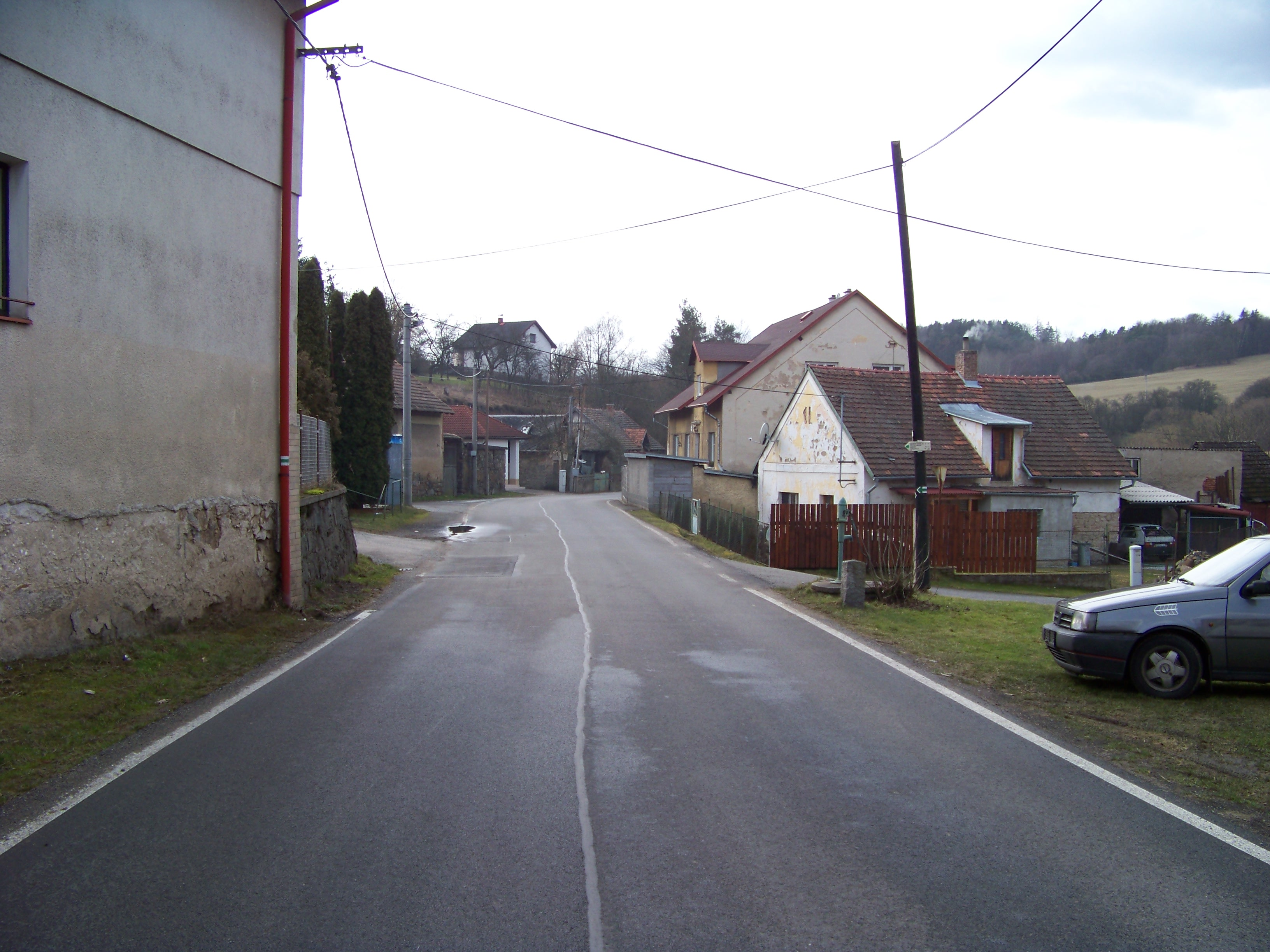 Týnec nad Sázavou-Čakovice, the Czech Republic.